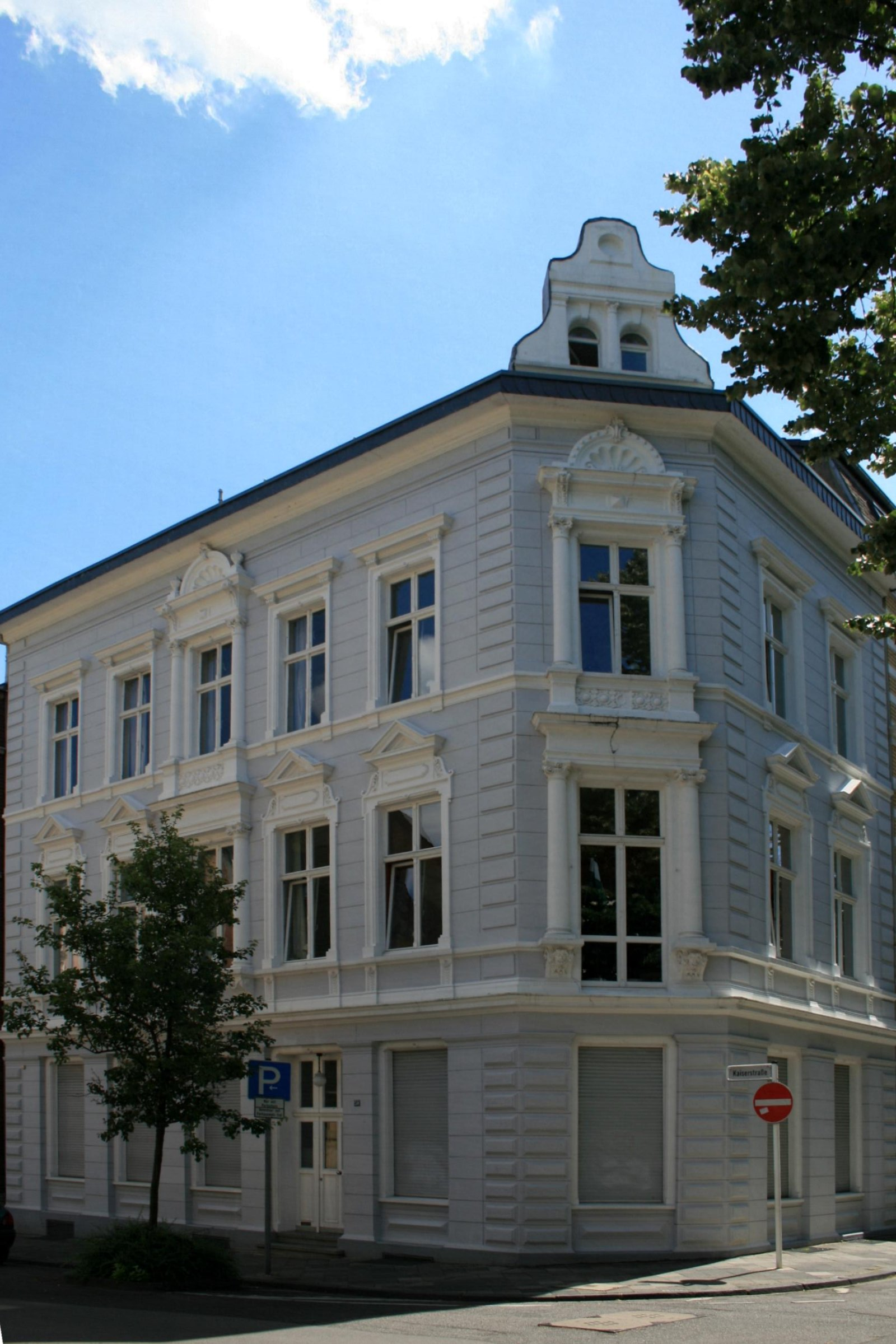 Cultural heritage monument No. K 047 in Mönchengladbach